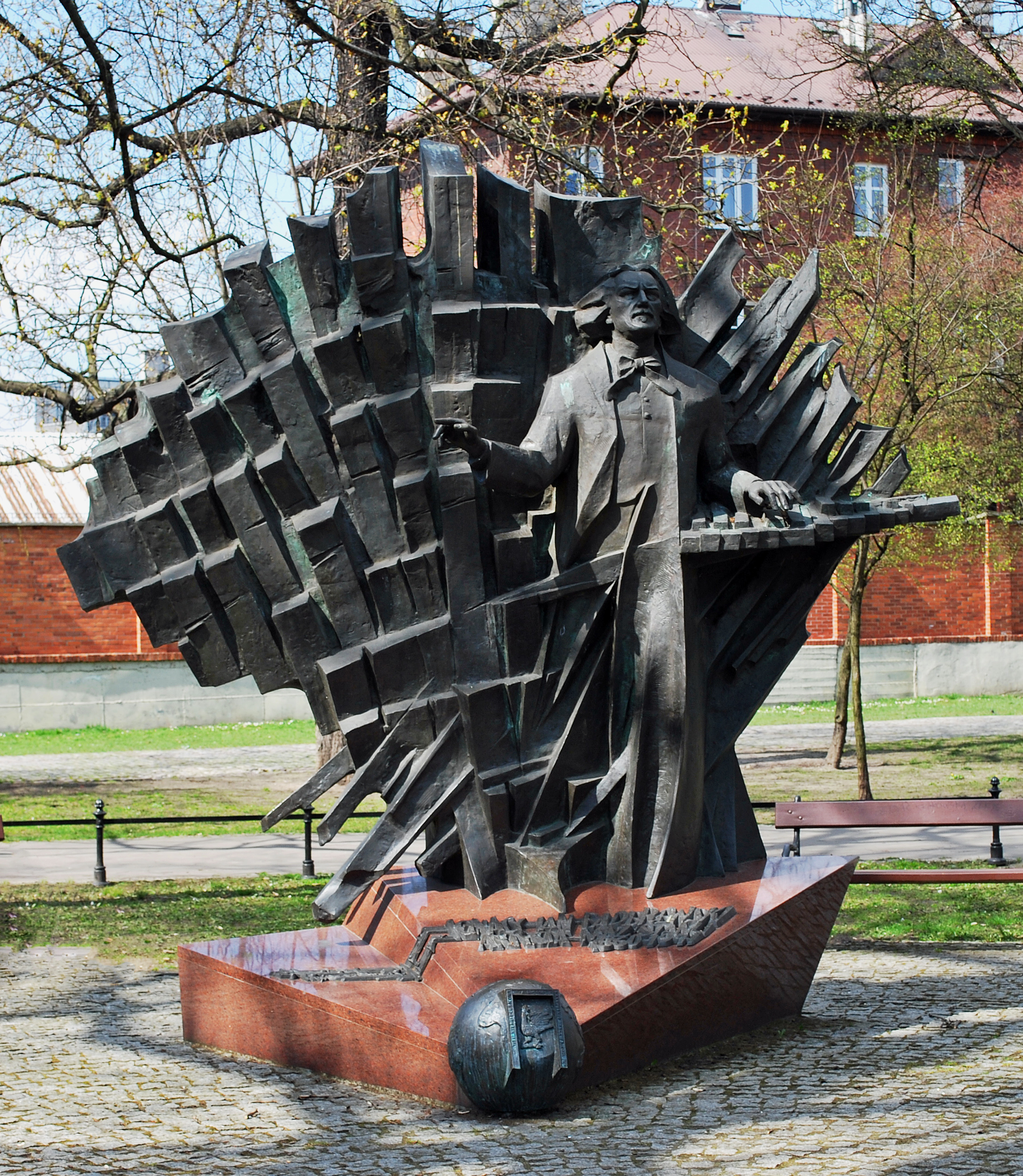 Ignacy Jan Paderewski monument, Strzelecki Park, 16 Lubicz street, Krakow, Poland